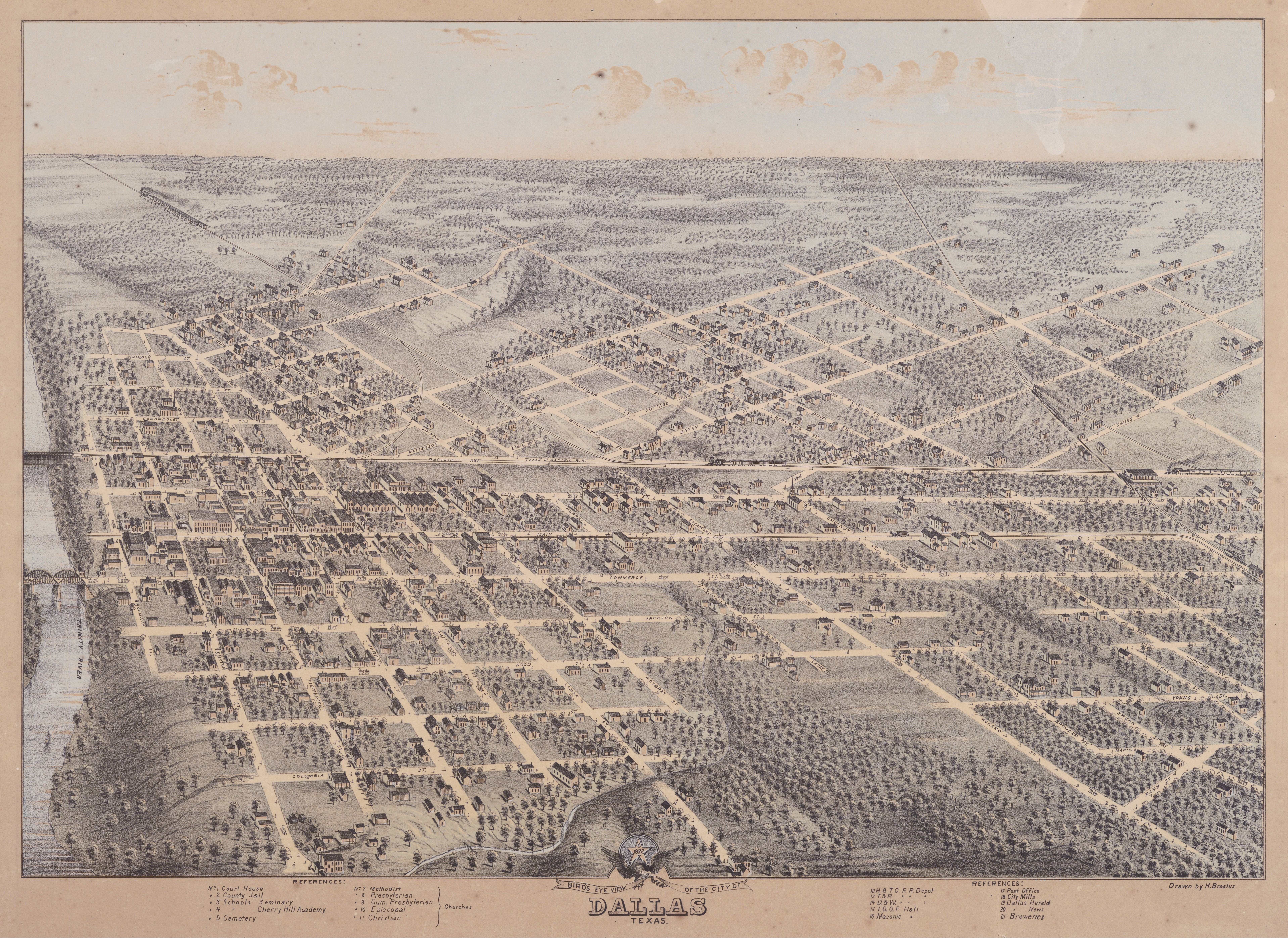 Dallas in 1872. Birdr's Eye View of the City of Dallas Texas 1872, 1872. Lithograph (hand-colored), 15.8 x 22.9 in. Lithographer unknown. Dallas Historical Society.